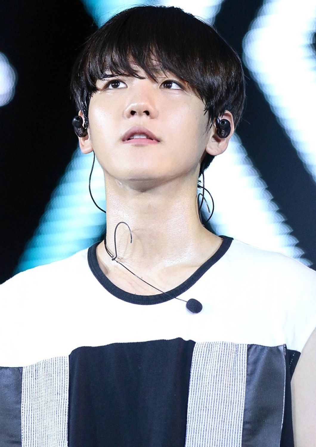 Baekhyun (Byun Baekhyun) at the EXO The Lost Planet Concert in Jakarta, Indonesia on 6 september 2014